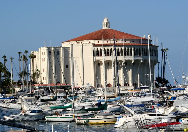 The Catalina Casino — on Avalon Bay in Avalon, Santa Catalina Island, southern California.